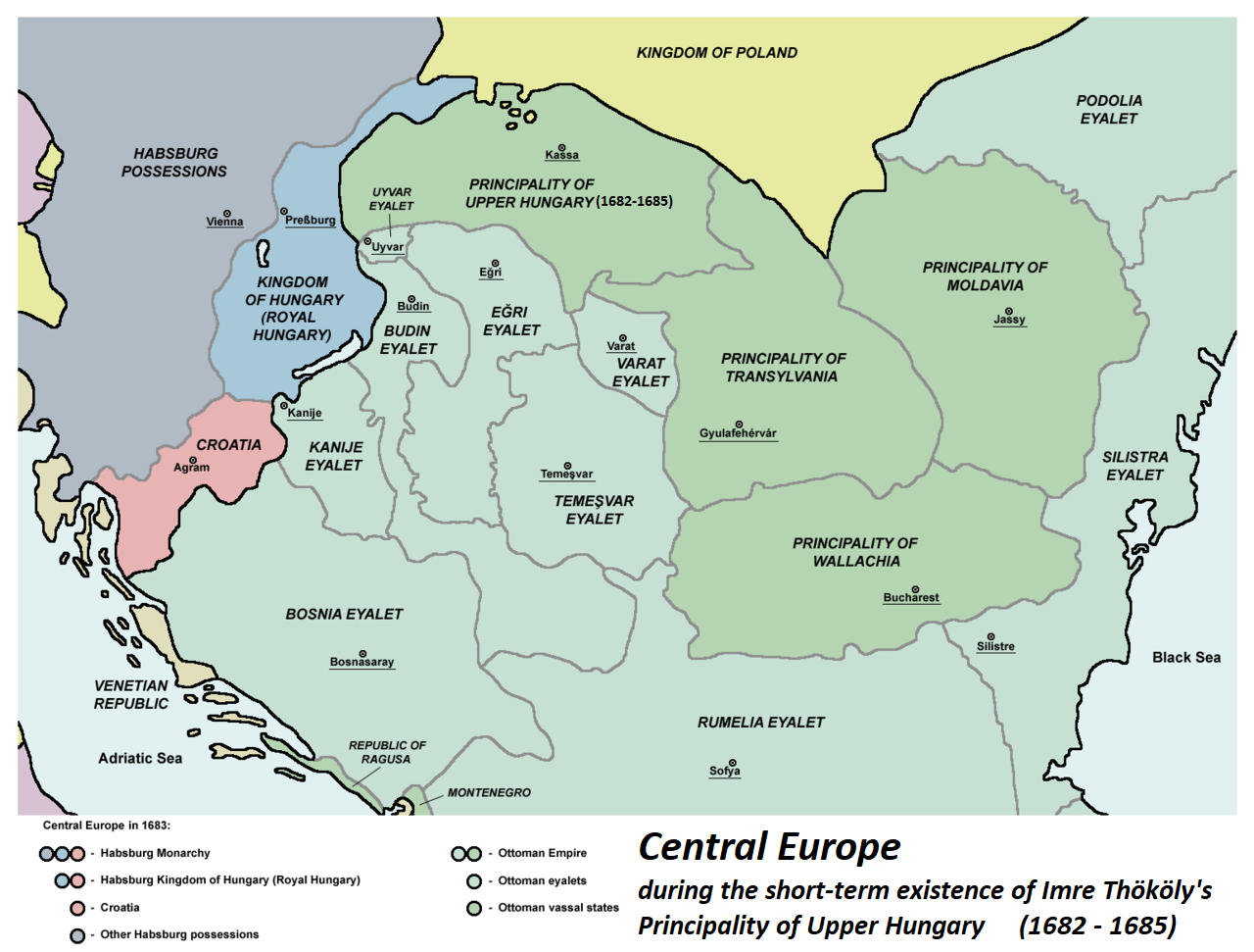 Central Europe during the short-term existence of Imre Thököly's Principality of Upper Hungary. - Habsburg and Ottoman territories, including Habsburg Kingdom of Hungary (Royal Hungary) and Habsburg Croatia, Ottoman vassal states (Wallachia, Moldavia, Transylvania, Principality of Upper Hungary (existed between 1682-1685), Montenegro, Ragusa) and Ottoman eyalets. The Ottoman expansion was asked by prince Imre Thököly in Upper Hungary (centered in present-day Slovakia) against the Habsburgs. The Ottoman Rule in Upper Hungary lasted only for 3 months.